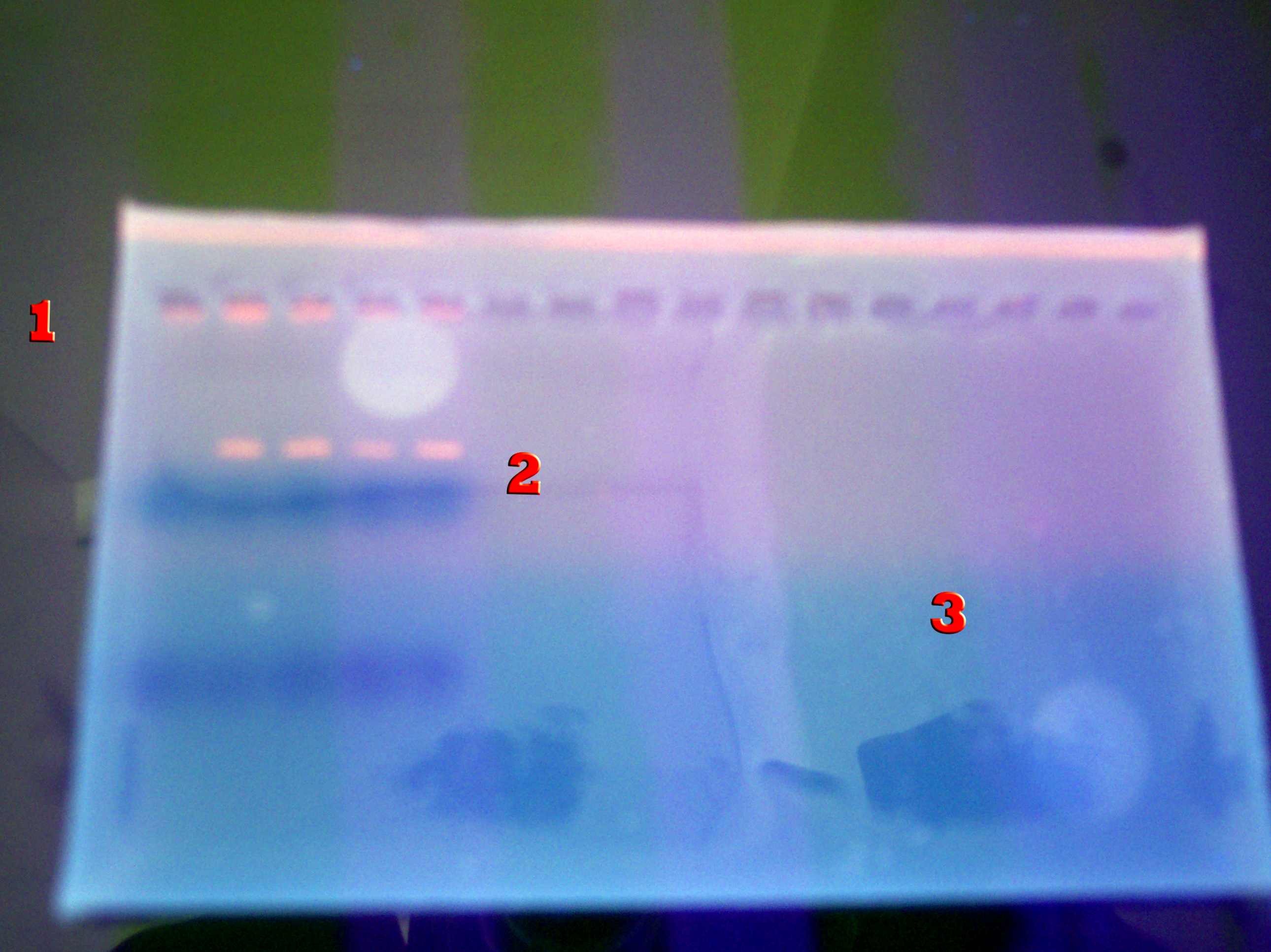 Agarose Gel